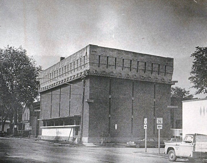 This picture, obtained from the Beth Caulkin estate, is from when Robert Blust was developing the Richland Museum in the Warehouse.